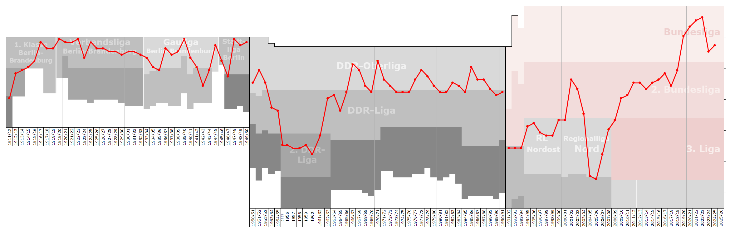 Chart of end-season table positions of Union Berlin in the football league system of Germany and GDR. Data source: RSSSF, wikipedia, f-archiv.de, fussball.de